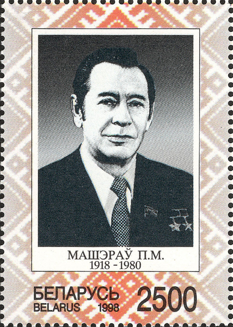 Stamp of Belarus depicting Pyotr Masherov